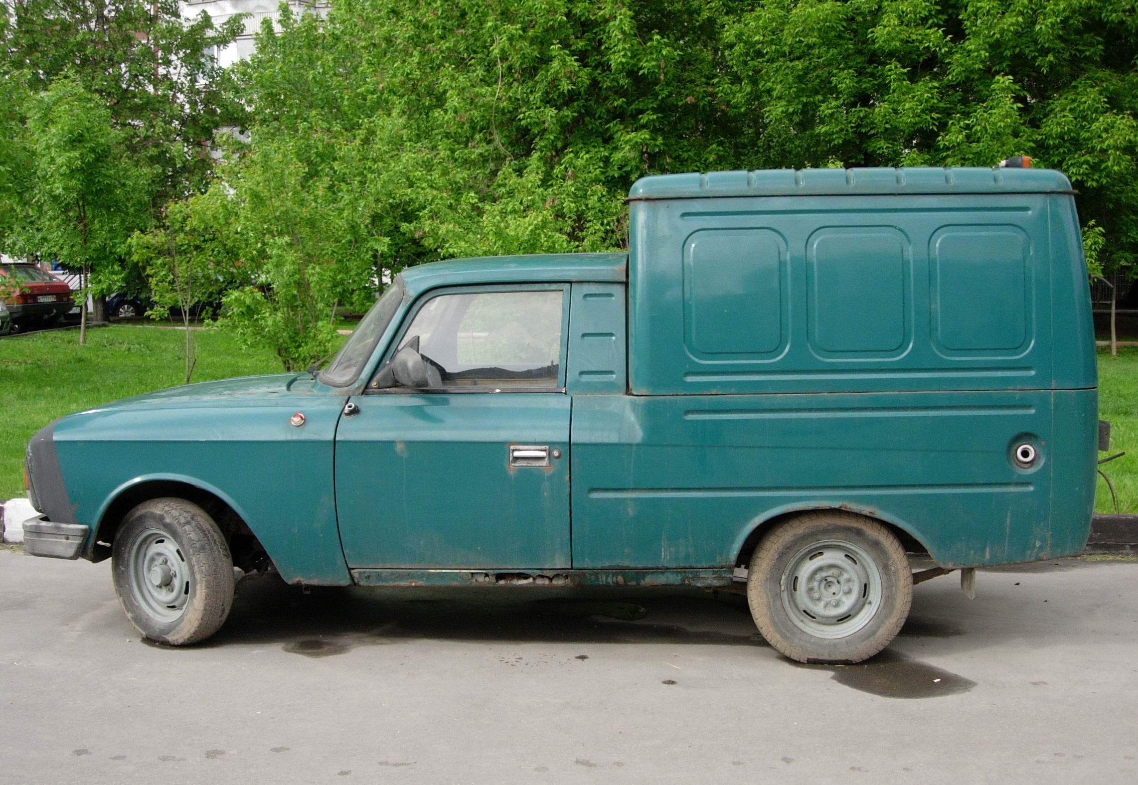 IZh 2715-01 car